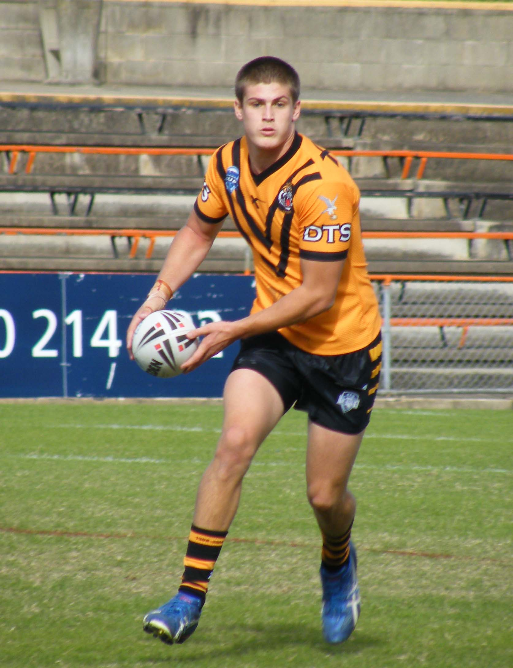 Blake Ayshford of Balmain RLFC